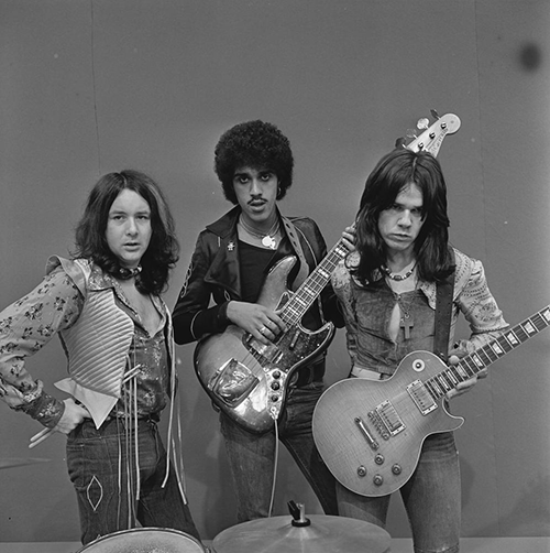 Thin Lizzy in AVRO's TopPop (Dutch television show) in 1974